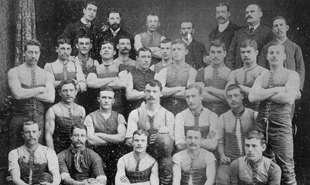 The Carlton FC team that won the premiership.